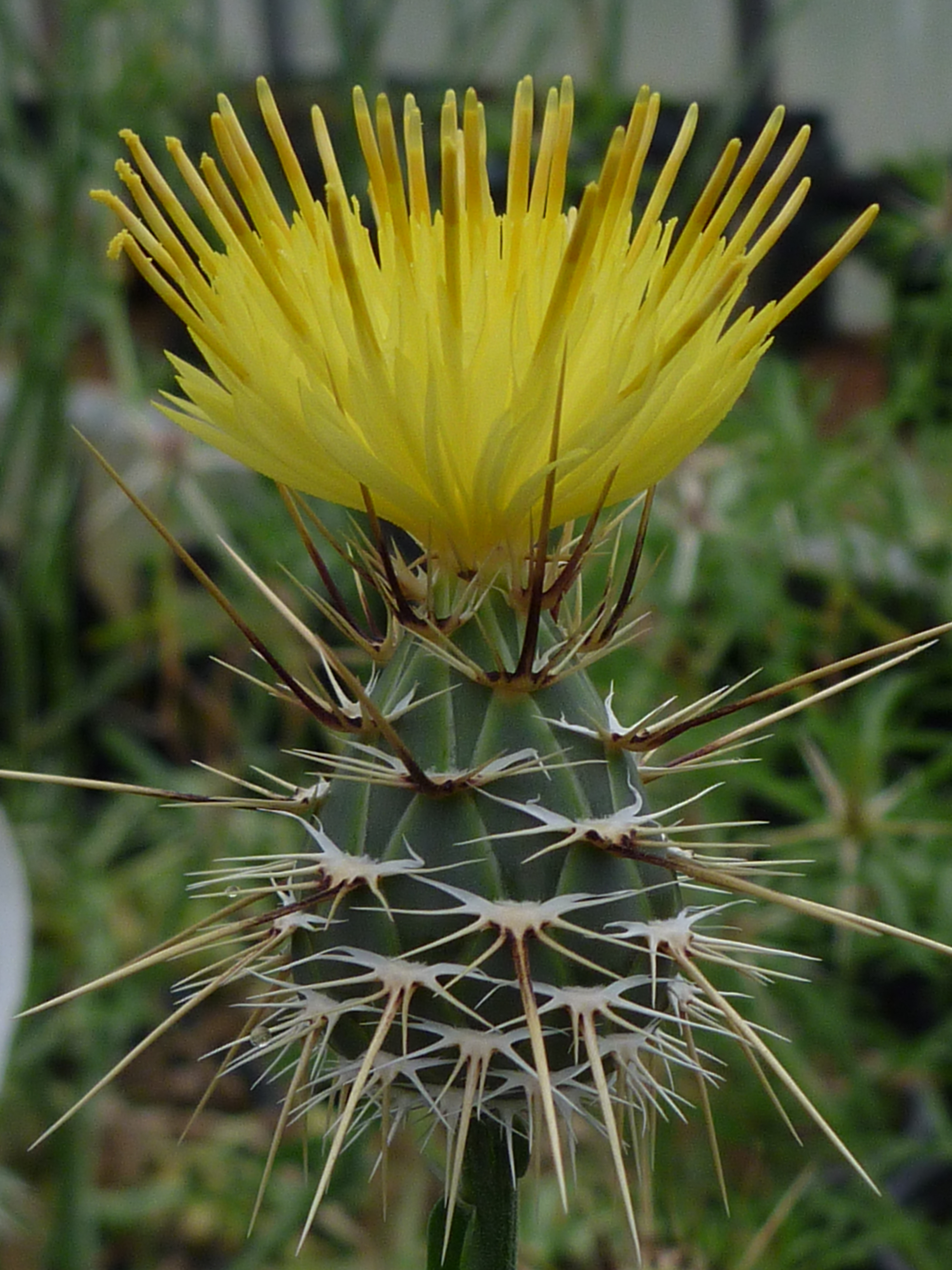 A flowering capitulum of sulfur star-thistle, Centaurea sulphurea